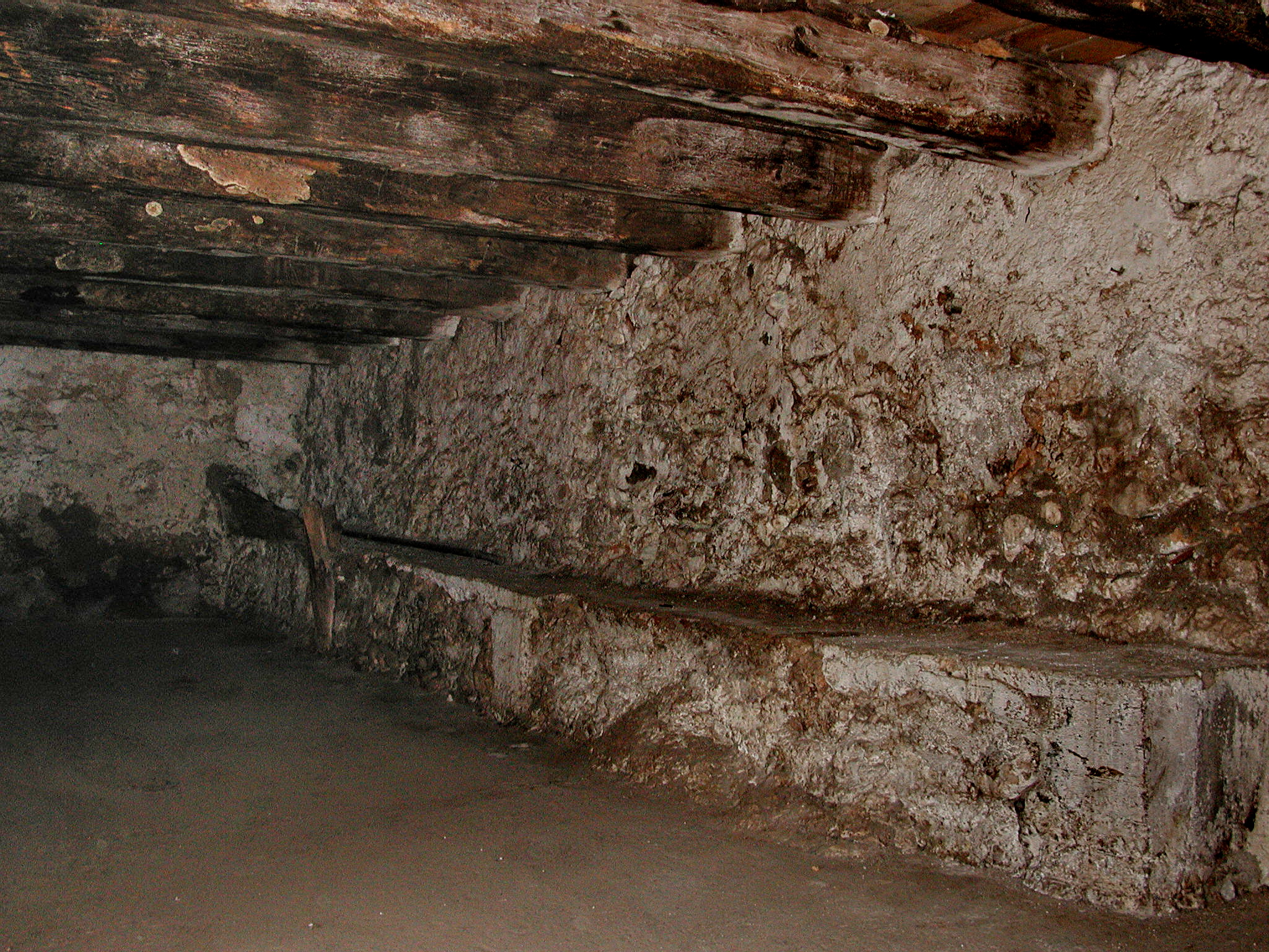 Canjuers military camp, Var, Villars farmhouse, sheepfold